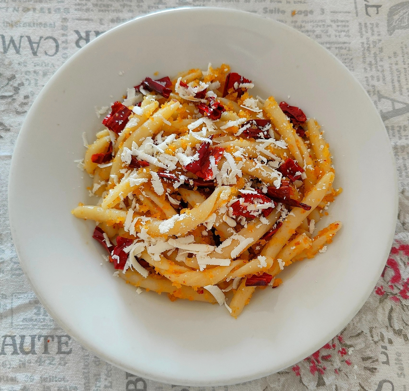 Frizzuli con peperoni cruschi. Traditional dish from Basilicata